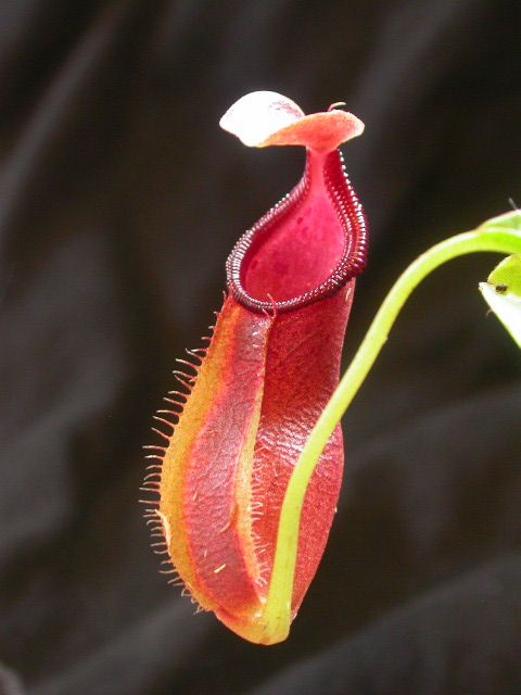 Cultivated N. singalana. -Jeremiah